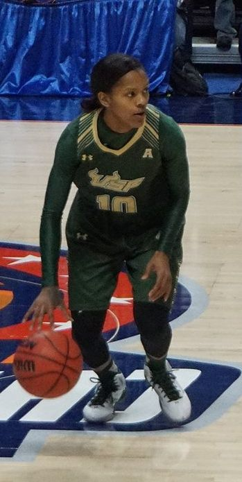 Courtney Williams at the AAC Tournament Championship game